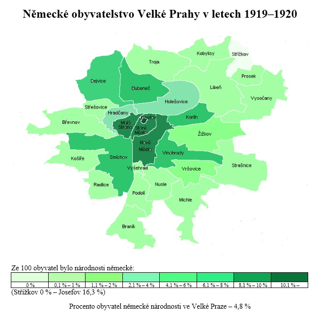 Germans in Prague